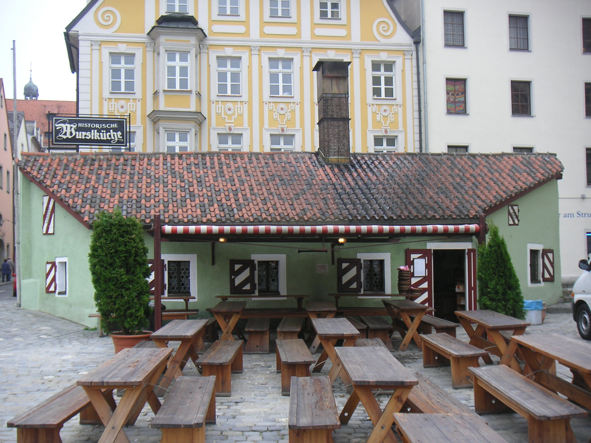 Regensburg, historical “Wurstküche” (= sausage kitchen).